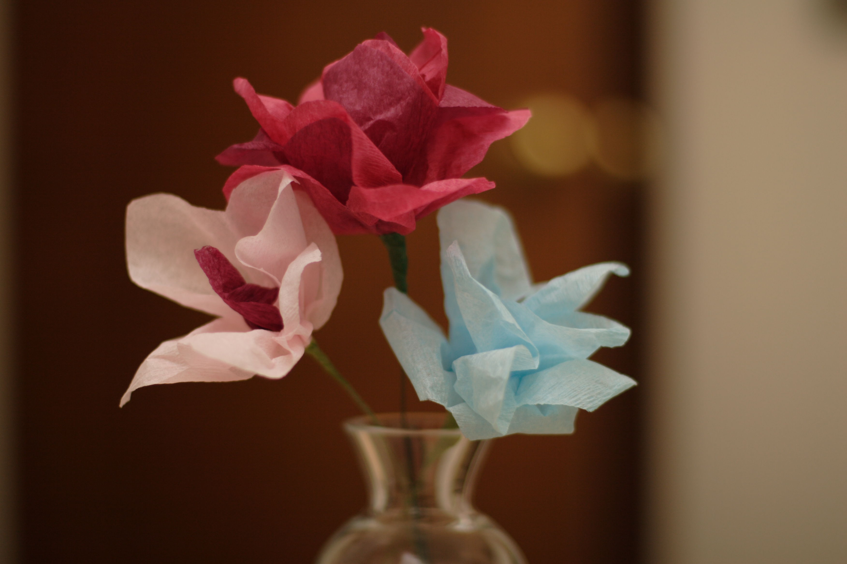 Delicate paper flowers in a vase. One pink, one red, one blue.